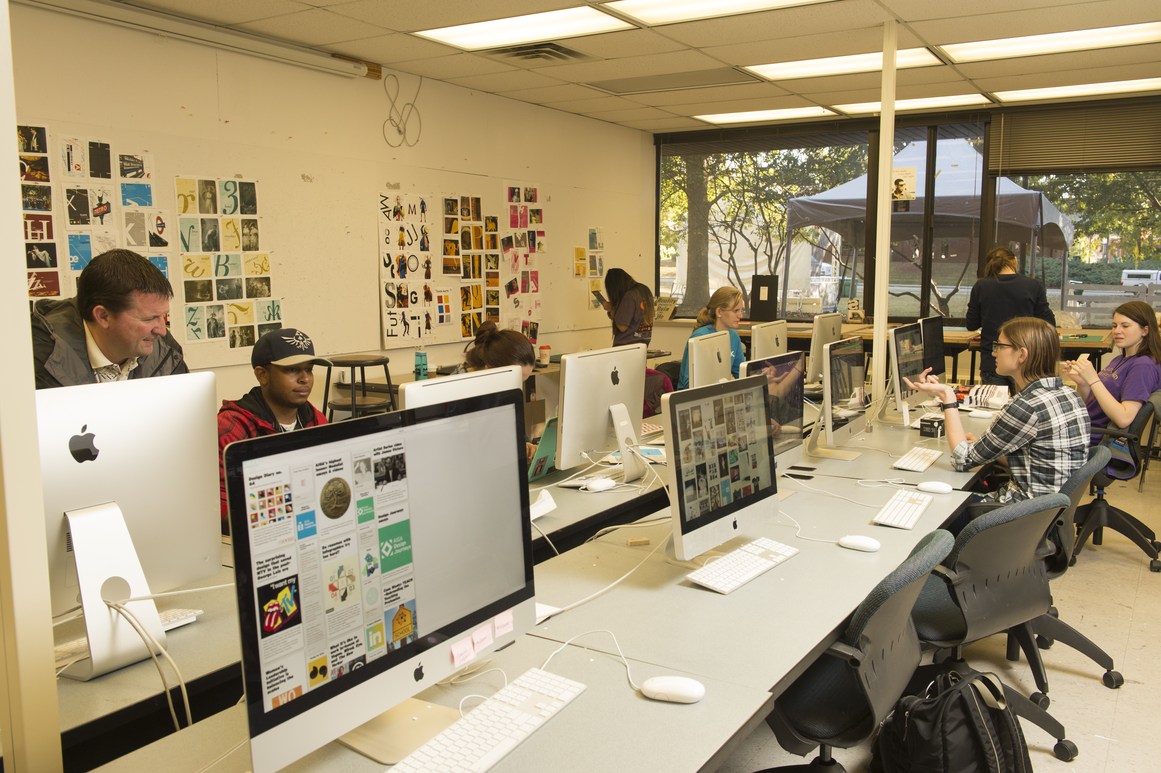 Classroom